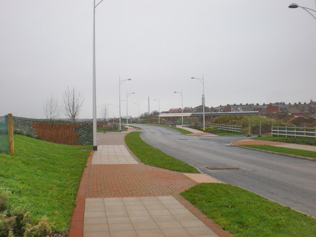 A road leading into the Waterfront Barrow-in-Furness, England, UK